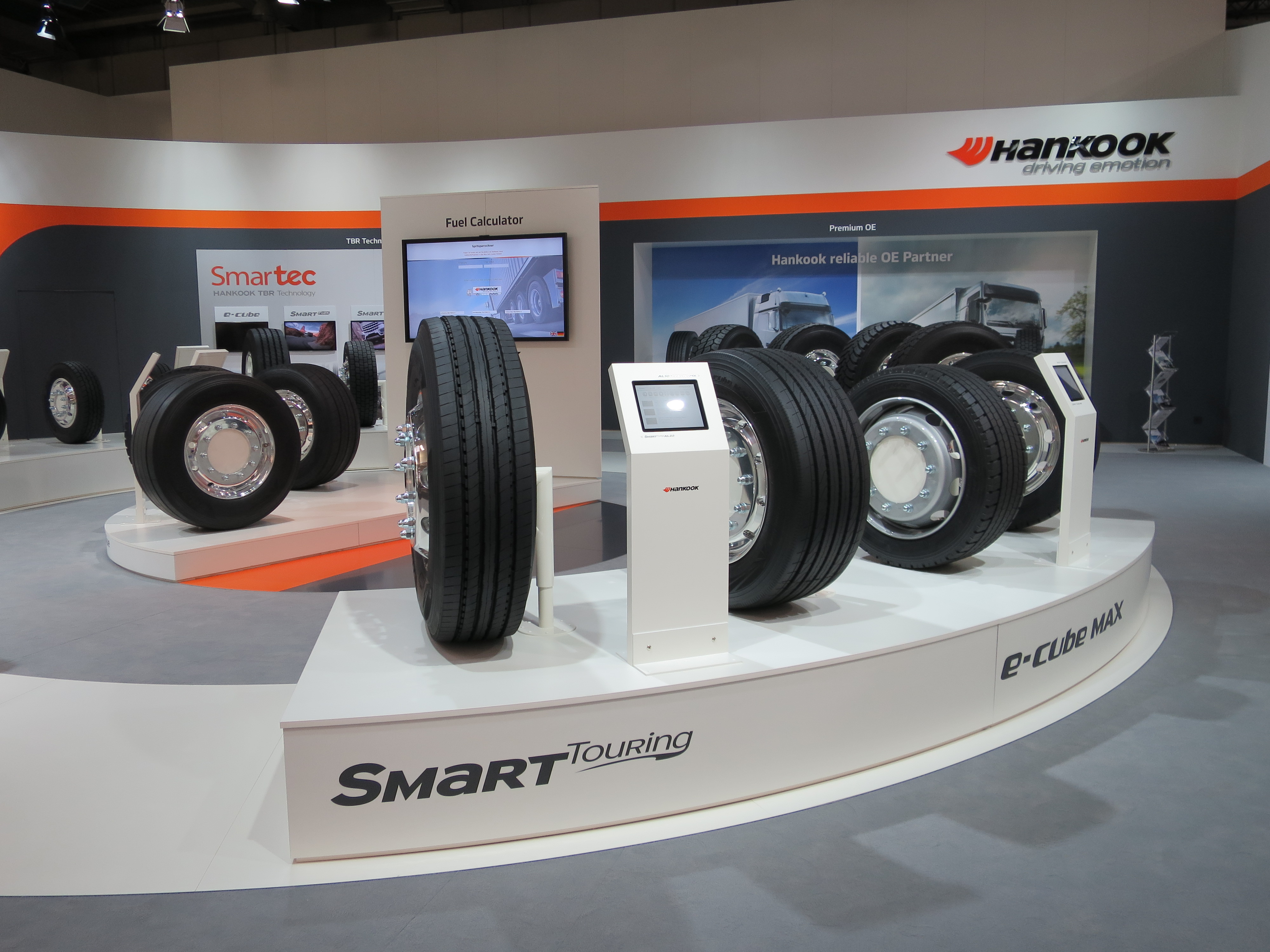 The making of this document was supported by Wikimedia Polska Association, within Wikigrant no. WG 2016-35. Hankook Tire